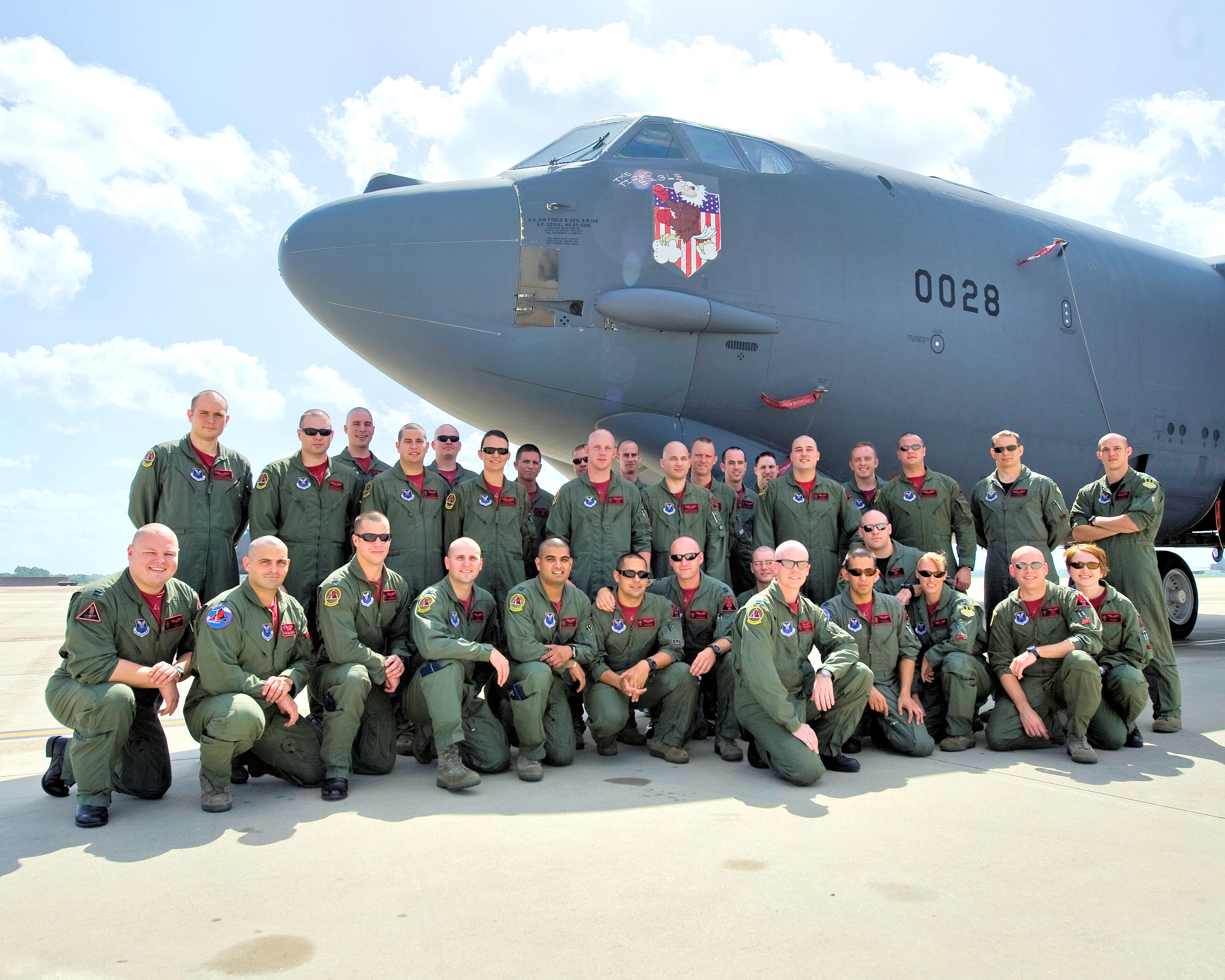 BARKSDALE AIR FORCE BASE, La. -- Capt. Eric Schmidt (front), a B-52 pilot with the 96th Bomb Squadron, poses with several other Airmen from his squadron July 23. Captain Schmidt is undergoing chemotherapy for stomach cancer, and several fellow Airmen shaved their heads to show their support. (U.S. Air Force photo by Senior Airman Chad Warren) (RELEASED)